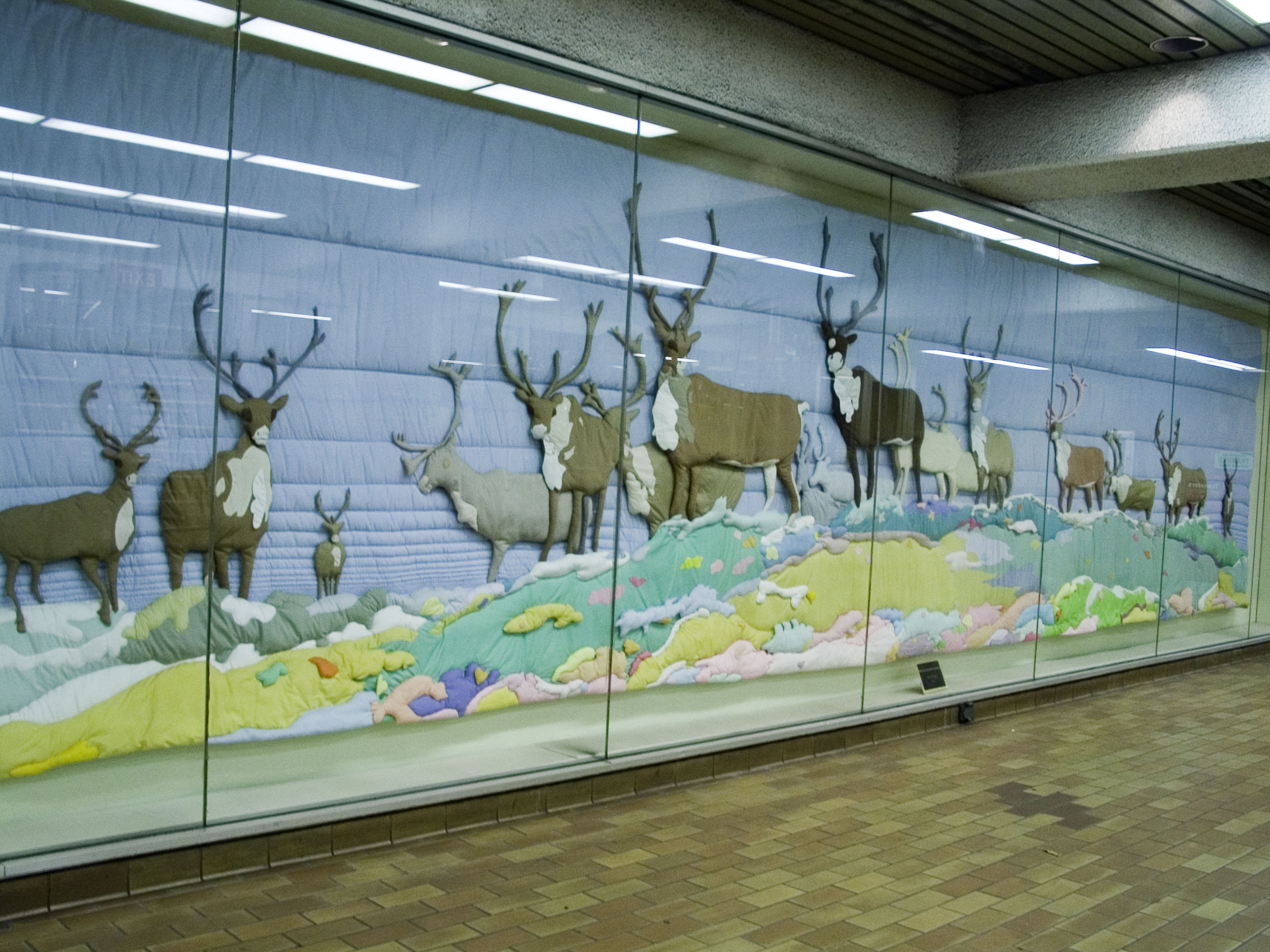 «Barren Ground Caribou» by Joyce Wieland, 1978, in Spadina subway station (TTC), taken with my camera